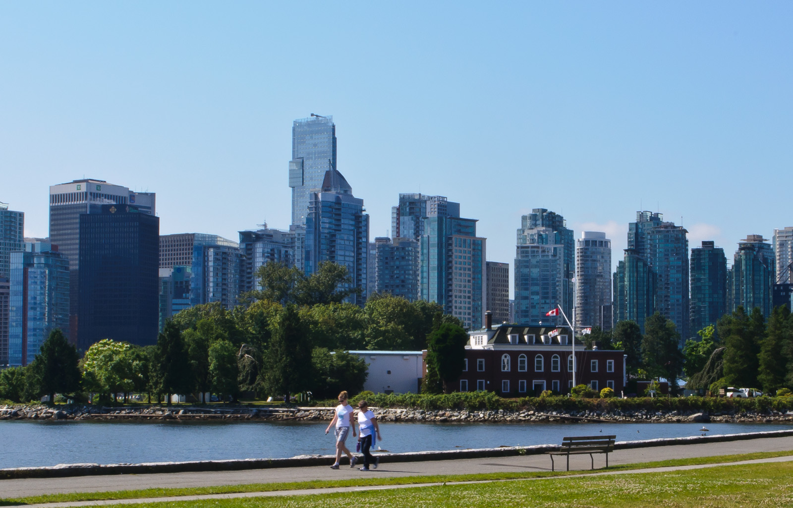 Stanley Park, located at the tip of the peninsula that is the core of Vancouver, had originally been set aside for a fort, to protect Canada's main Pacific port of Vancouver from a possible US invasion in the 19th Century. (After all, both the US and the UK were vying for the control of Vancouver, before it became part of a new Canada.) The land became the park that it is today, when the US invasion threat dissipated; today, the main US invasion here is in the form of tourism. Stanley Park is named after Lord Stanley, Canada's first Governor-General; National Hockey League's Stanley Cup is also named after it. (Sadly the Vancouver Canucks have never been able to win the Stanley Cup - 2012 saw the Canucks get cut down by none other than my Los Angeles's own Kings, who went on to win it.) The highrise condominium buildings in the background attest to a large influx of wealth into the Vancouver area. Most of the wealth has been as a result of immigration of wealthy Chinese investors and entrepreneurs, primarily those fleeing British Hong Kong in the days before its return to China. Canada's investor- and entrepreneur-friendly immigration policy is well noted, and today's Vancouver, thanks to the immigration, is more Chinese than English as a result.